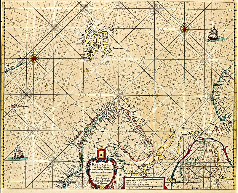 Old map of Norway including Svalbard